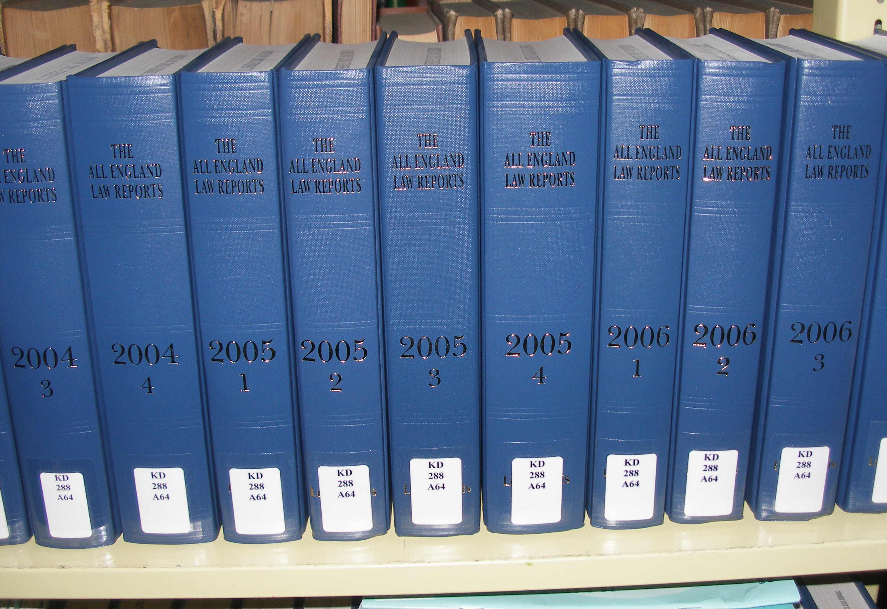 Volumes of the All England Law Reports on a shelf at the law library of UC Berkeley School of Law.